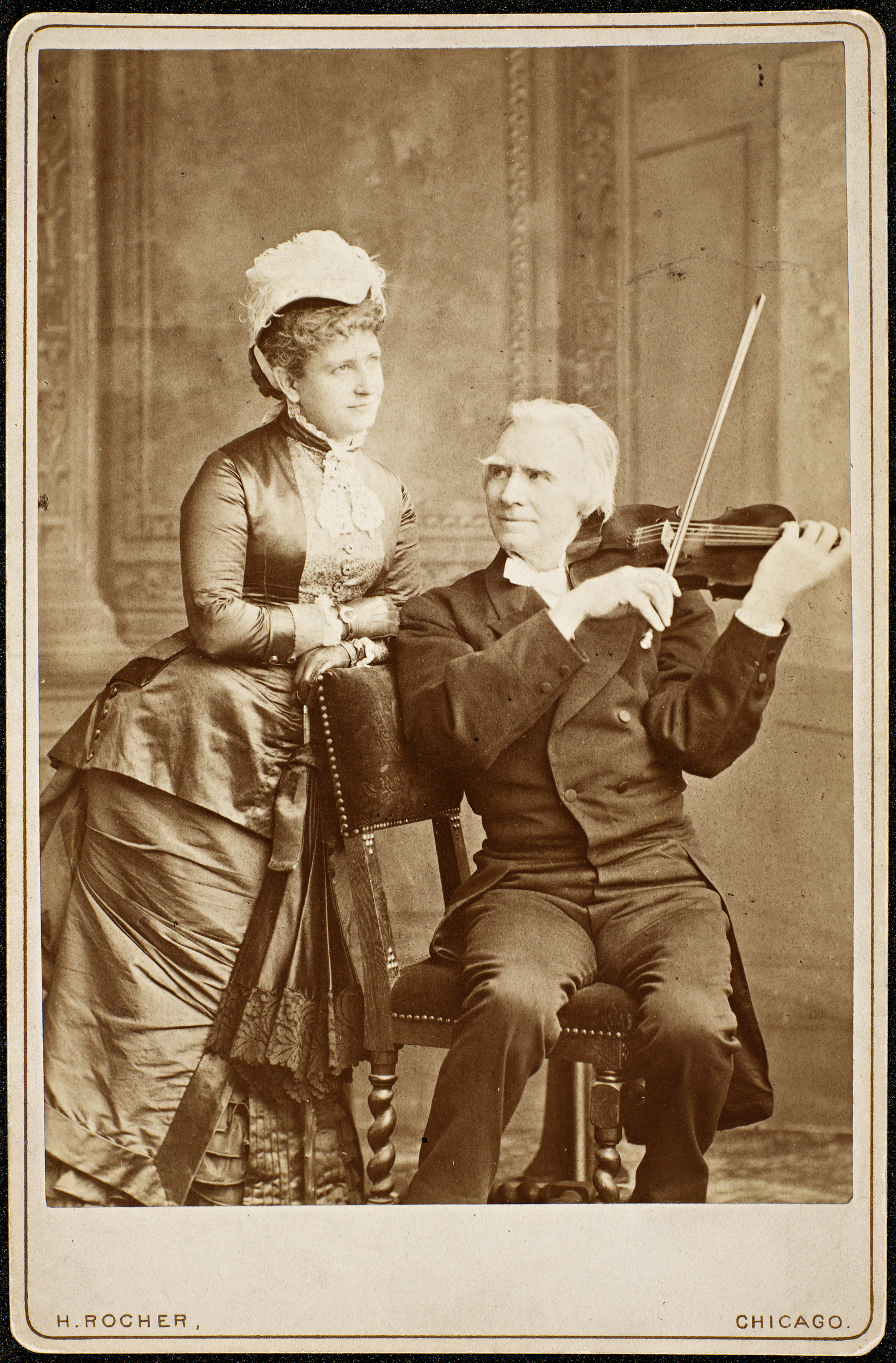 Date/place: unknown, Chicago Subject: Ole Bull and Emma C. Thursby (1845-1931) Medium: photographic positive, cabinet card Notes: none Persistent URL: NA Title number: NA Original reference: blds_01314 Original found at [#// The National Library of Norway], digital reproduction by their picture collection.